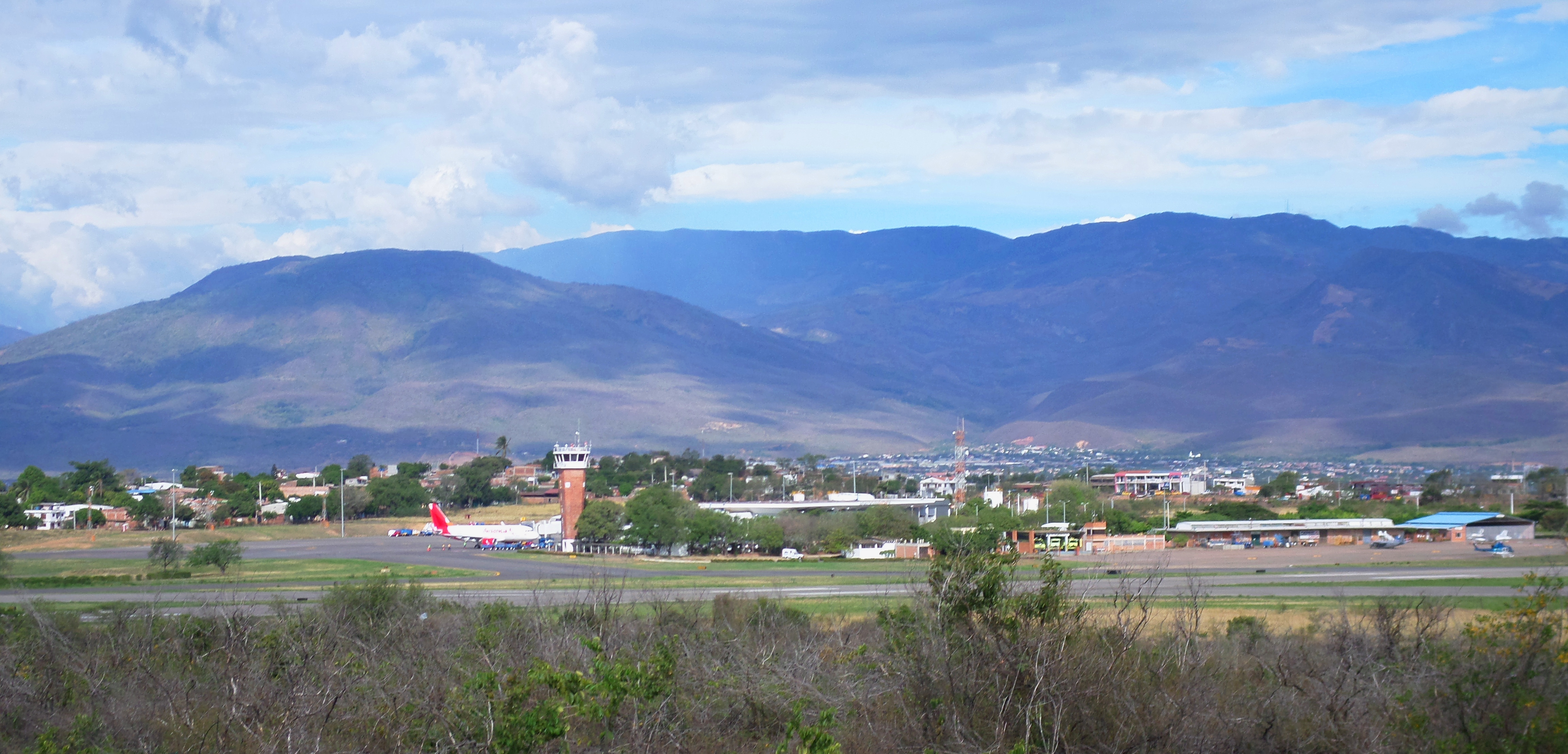 Camilo Daza International Airport - Cúcuta North Santander, Colombia.